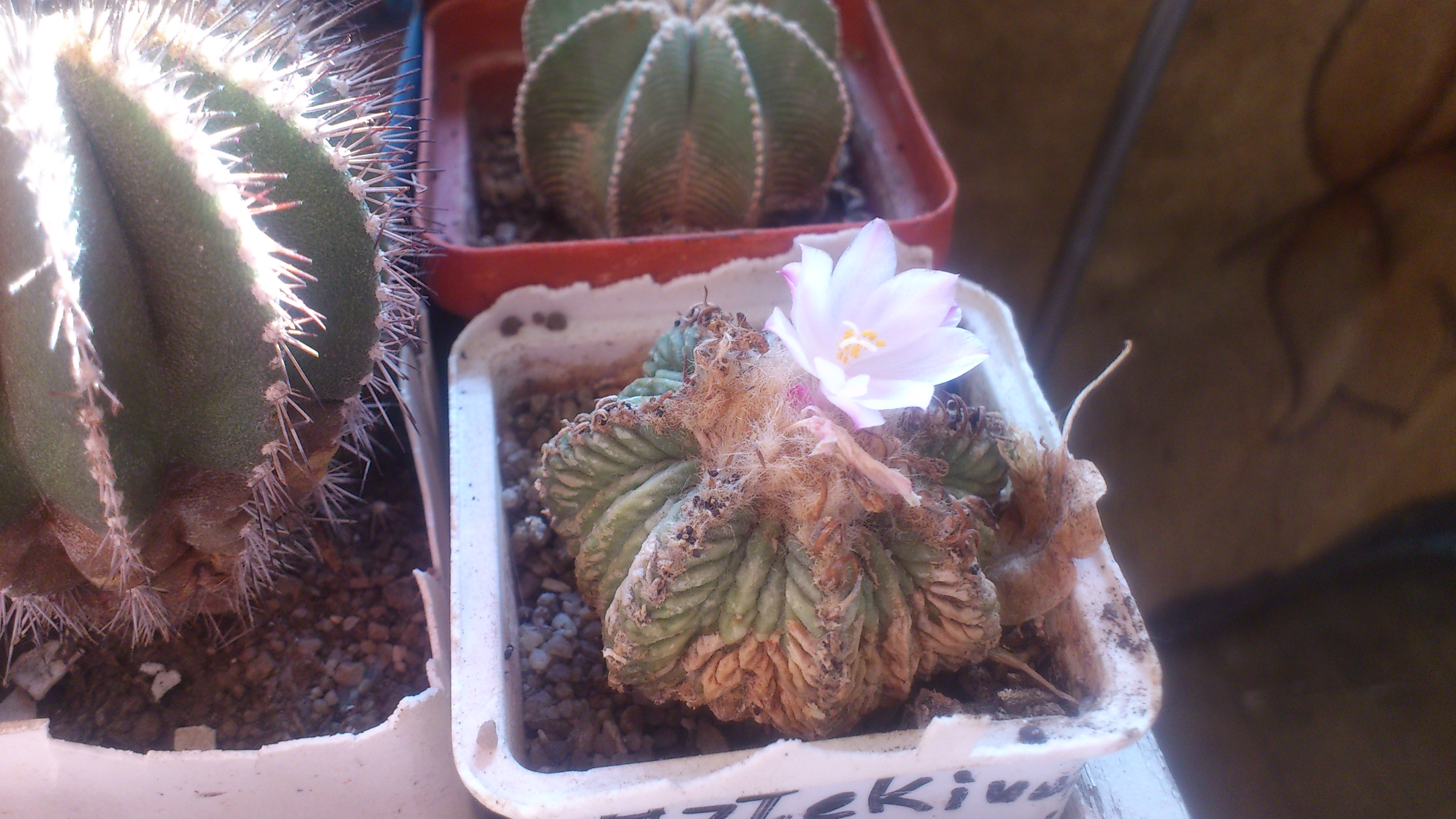 Aztekium ritteri, collections of Yuriy Shostak, Mykolaiv